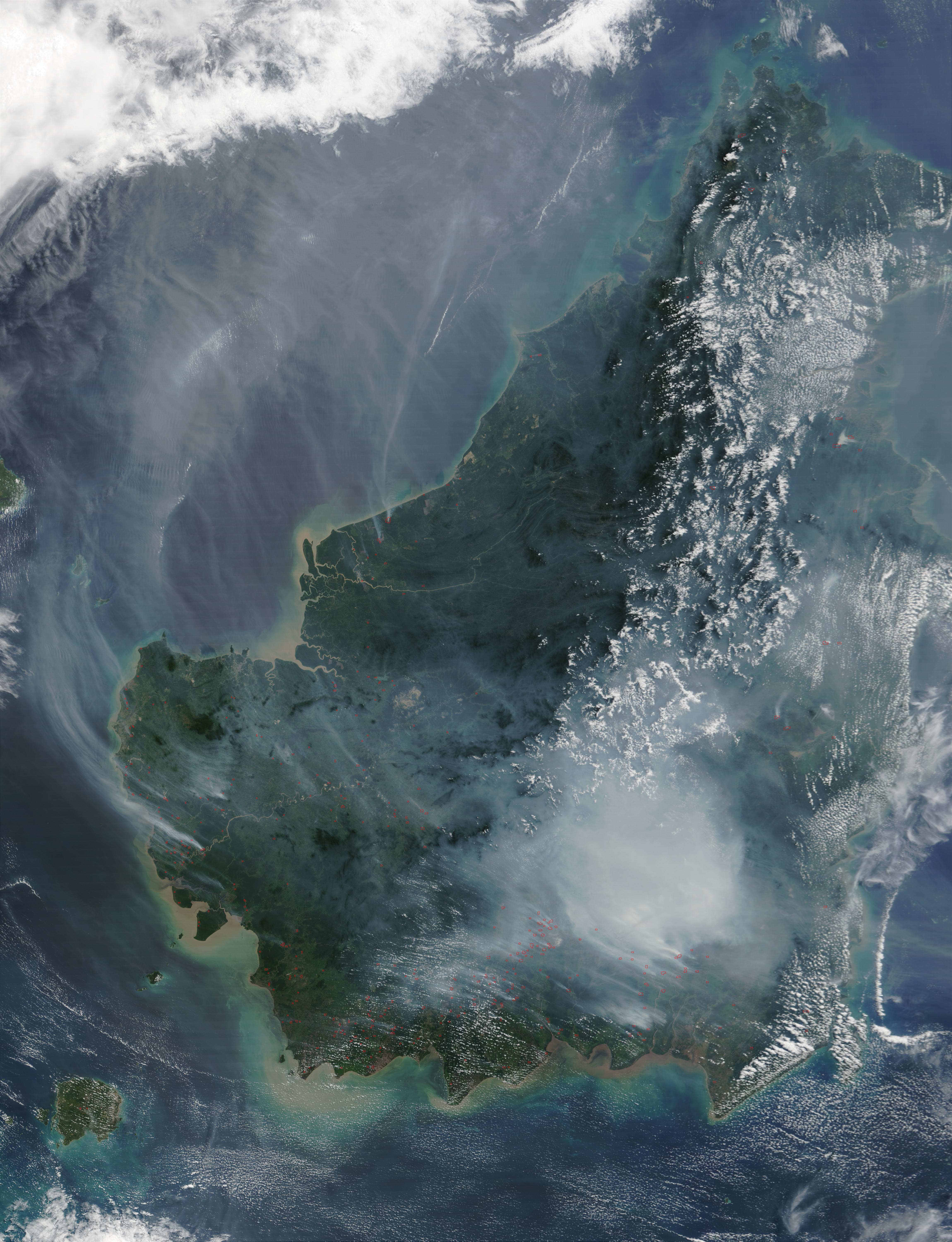 Thick smoke in Borneo resulting from slash-and-burn practices. The red squares on the image denote fires, picked up by the Moderate Resolution Imaging Spectroradiometer (MODIS) on the Terra satellite.